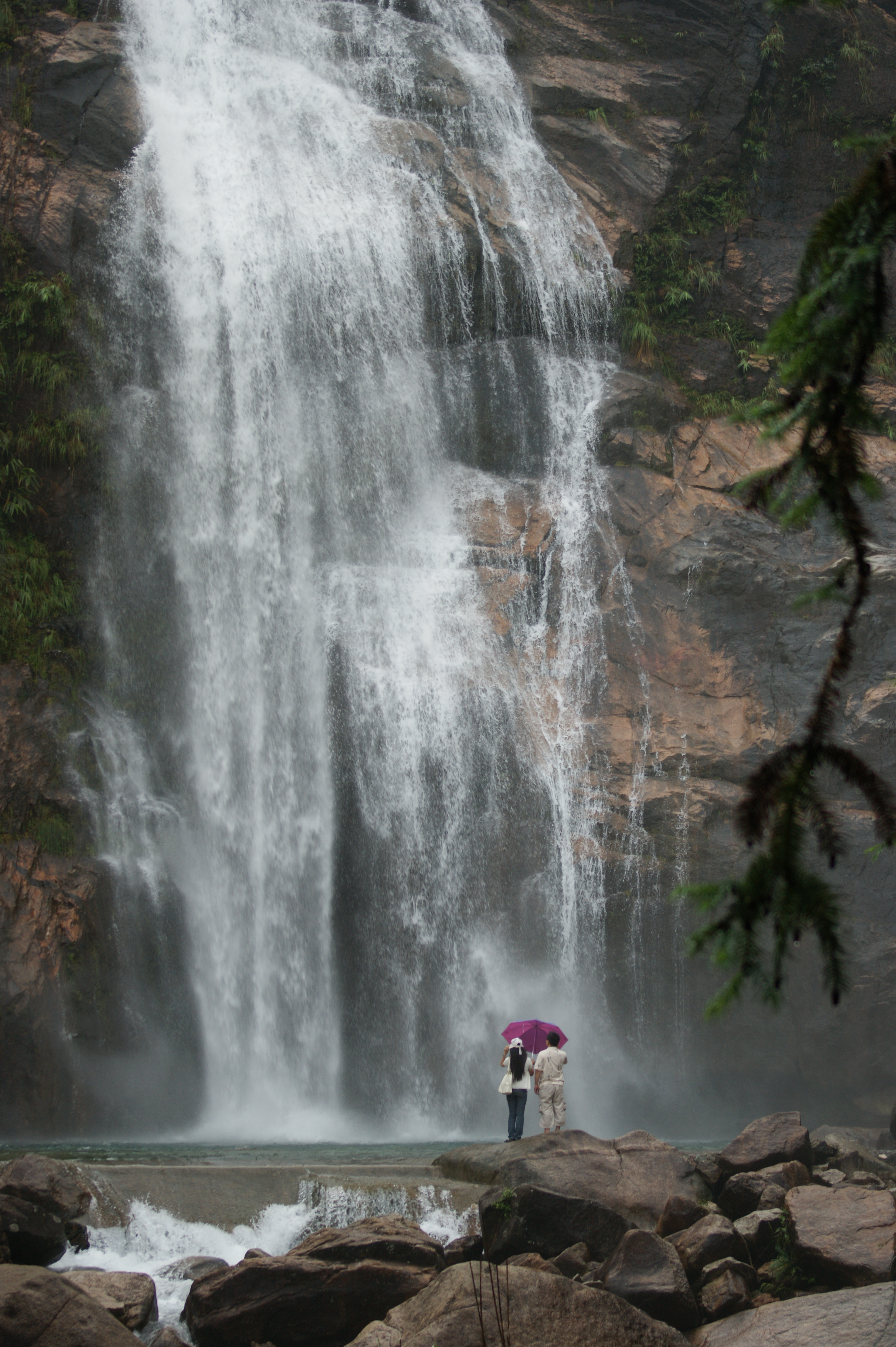 Dragon Falls in Lungtan Villa, Kwun Yam Shan, Fogang ,Guangdong, China